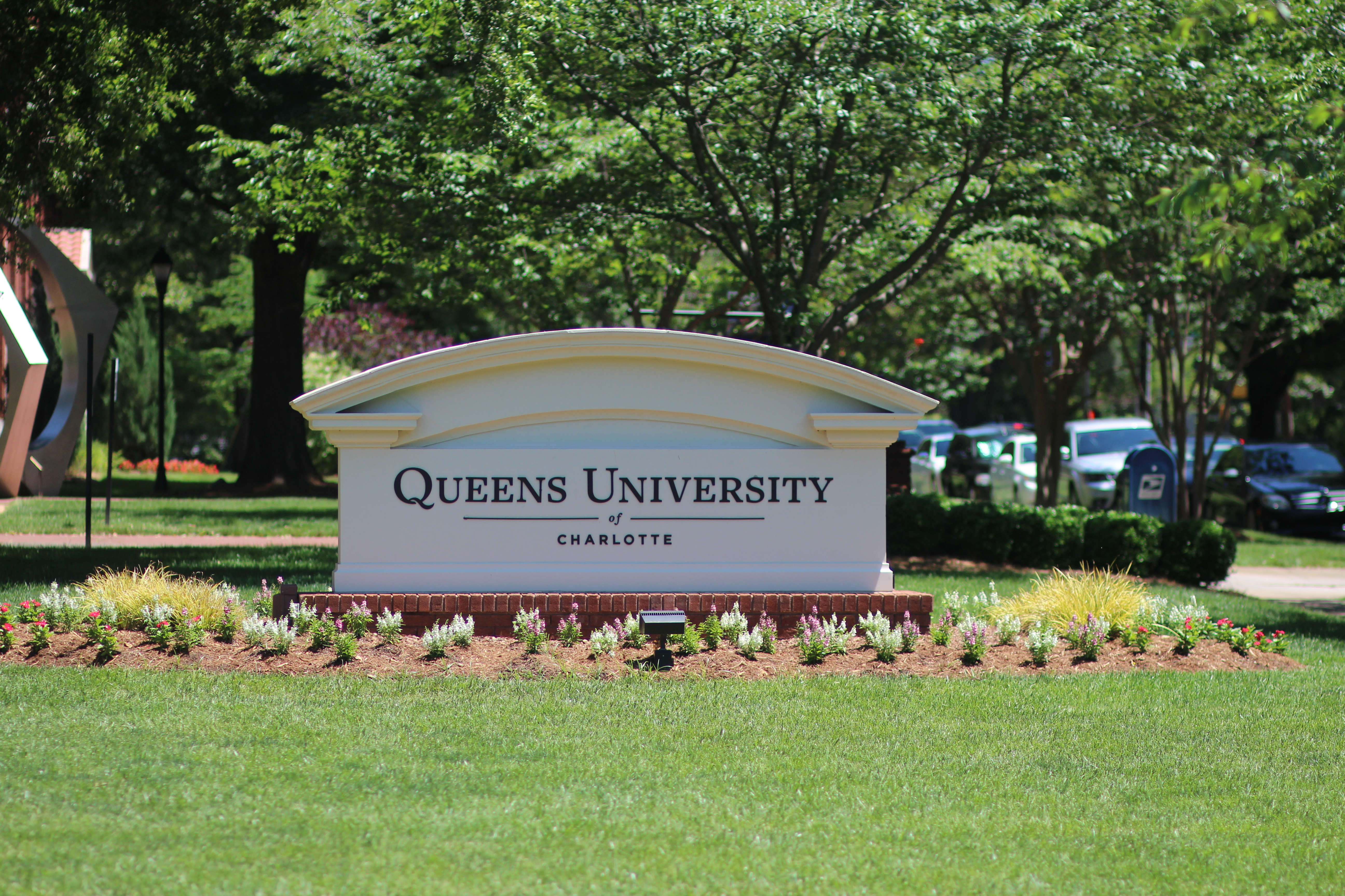 front entrance.